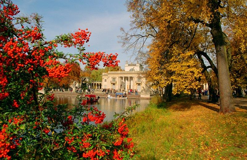 Palac na Wodzie in Warsaw with the permission of the authers Marek and Ewa Wojciechowscy [1]